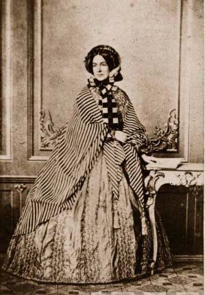 Princess Mathilde of Schaumburg-Lippe